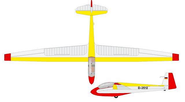 Scheibe Bergfalke IV